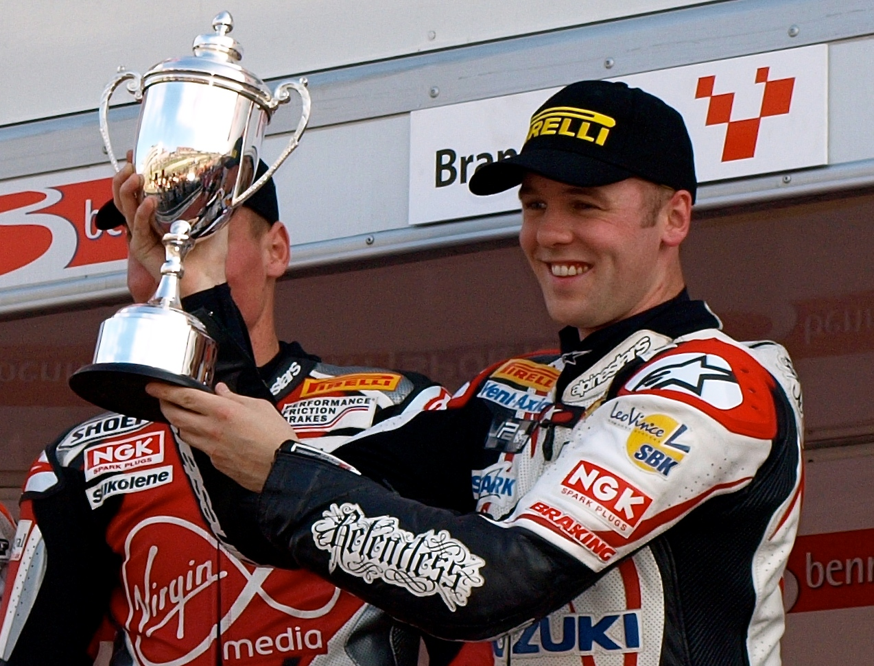 Motorcycle racer Michael Laverty geting his SuperSport championship trophy